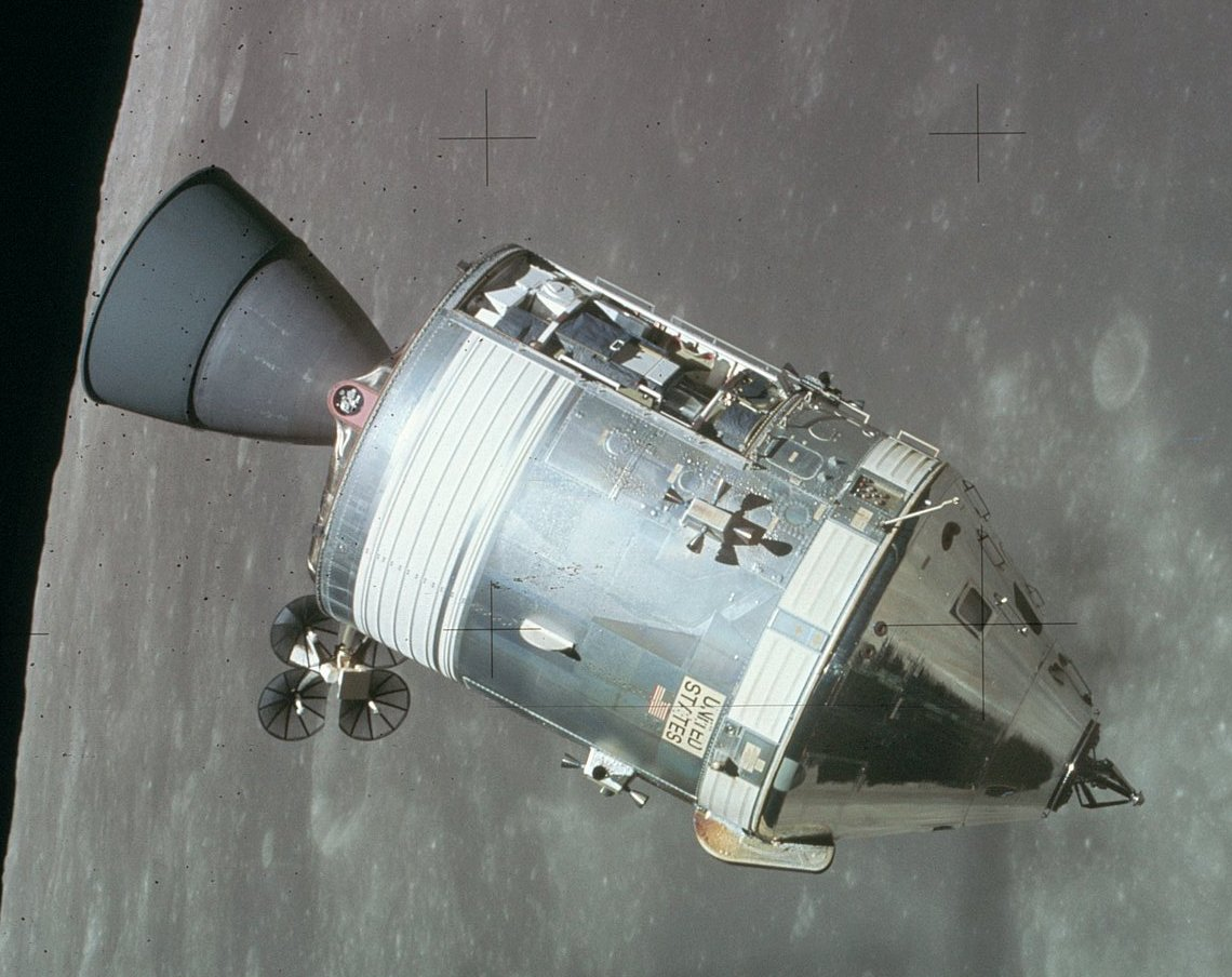 The Apollo 15 Service Module as viewed from the Apollo Lunar Module. Image has been cropped and rotated.